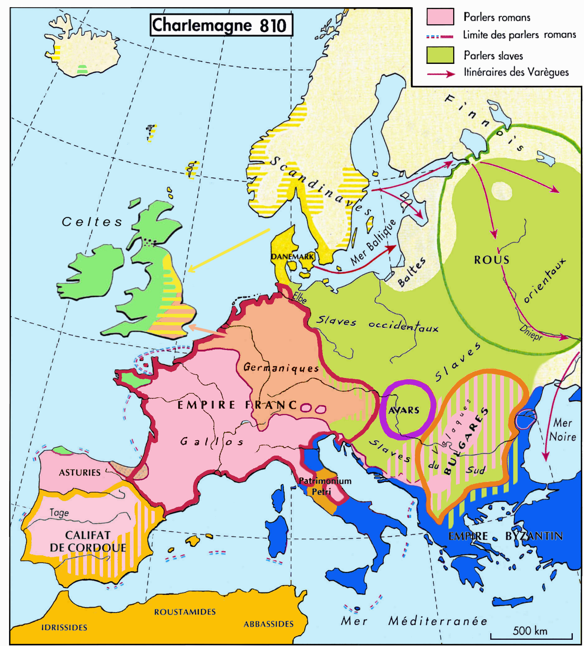 Historical map of Europe, french language, year 810